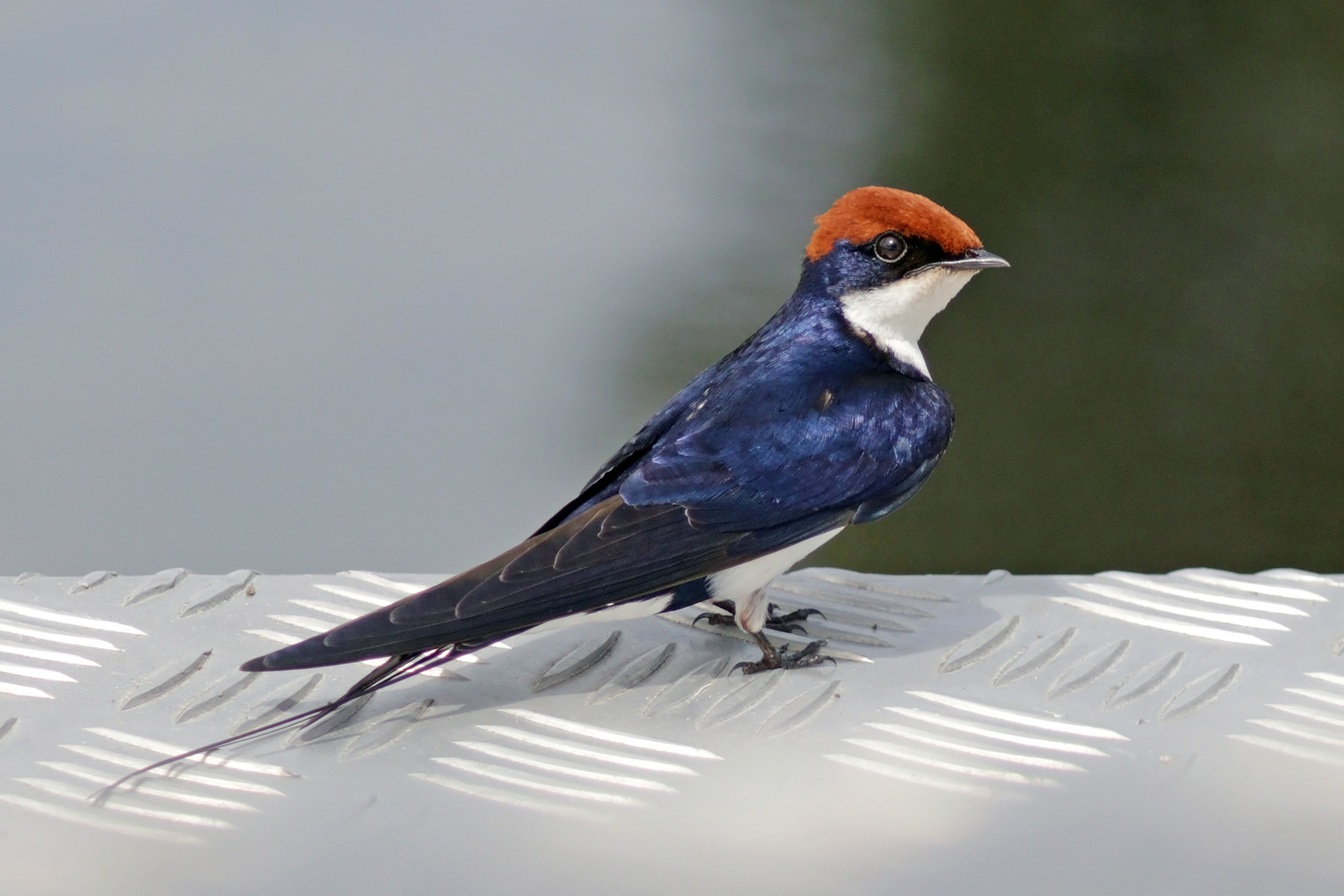 Wire-tailed swallow (Hirundo smithii smithii), Linyanti River, Namibia